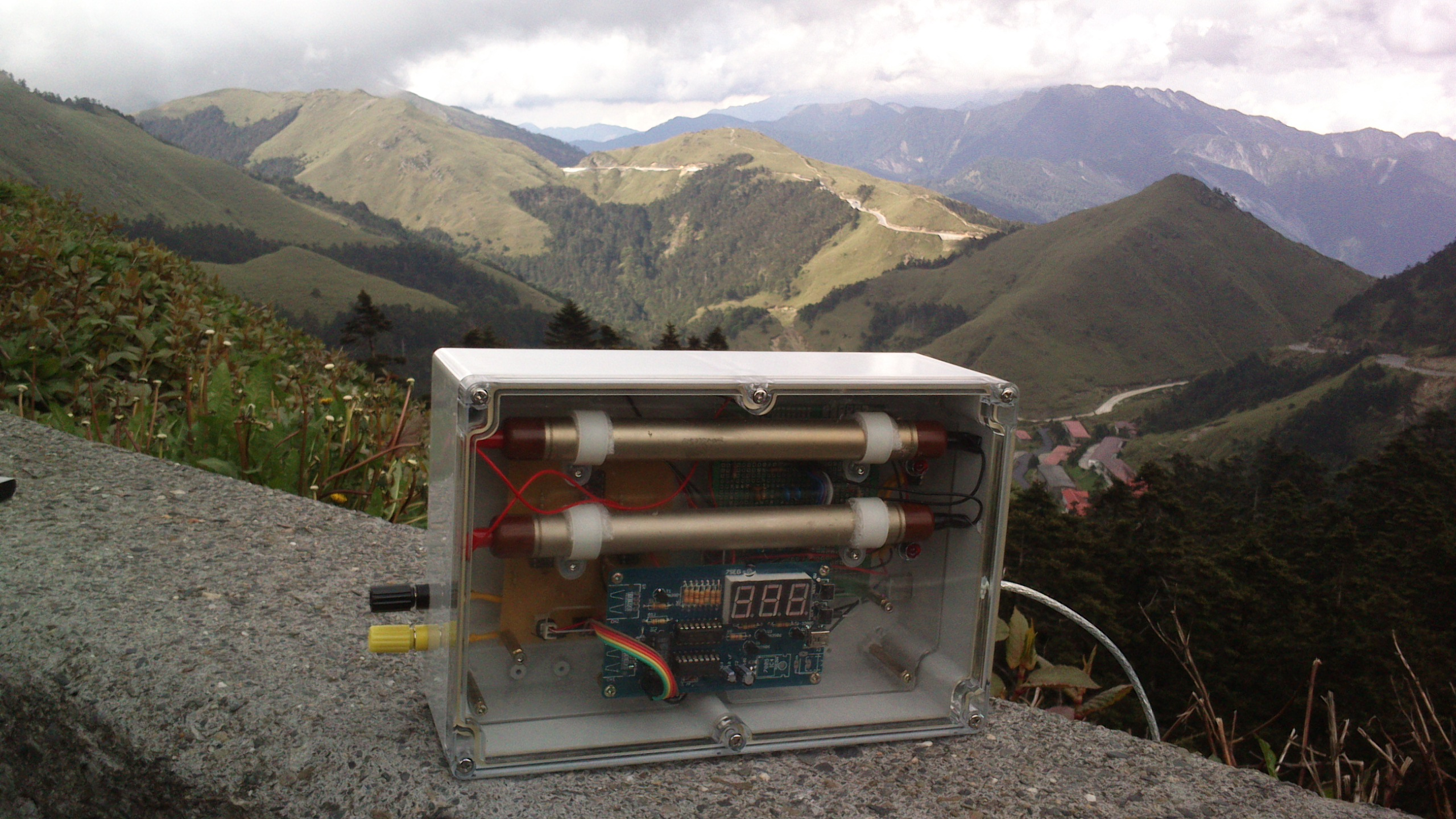 Self made a simple geiger counter. The Hehuanshan at the background was taken from the parking lot of Wuling.